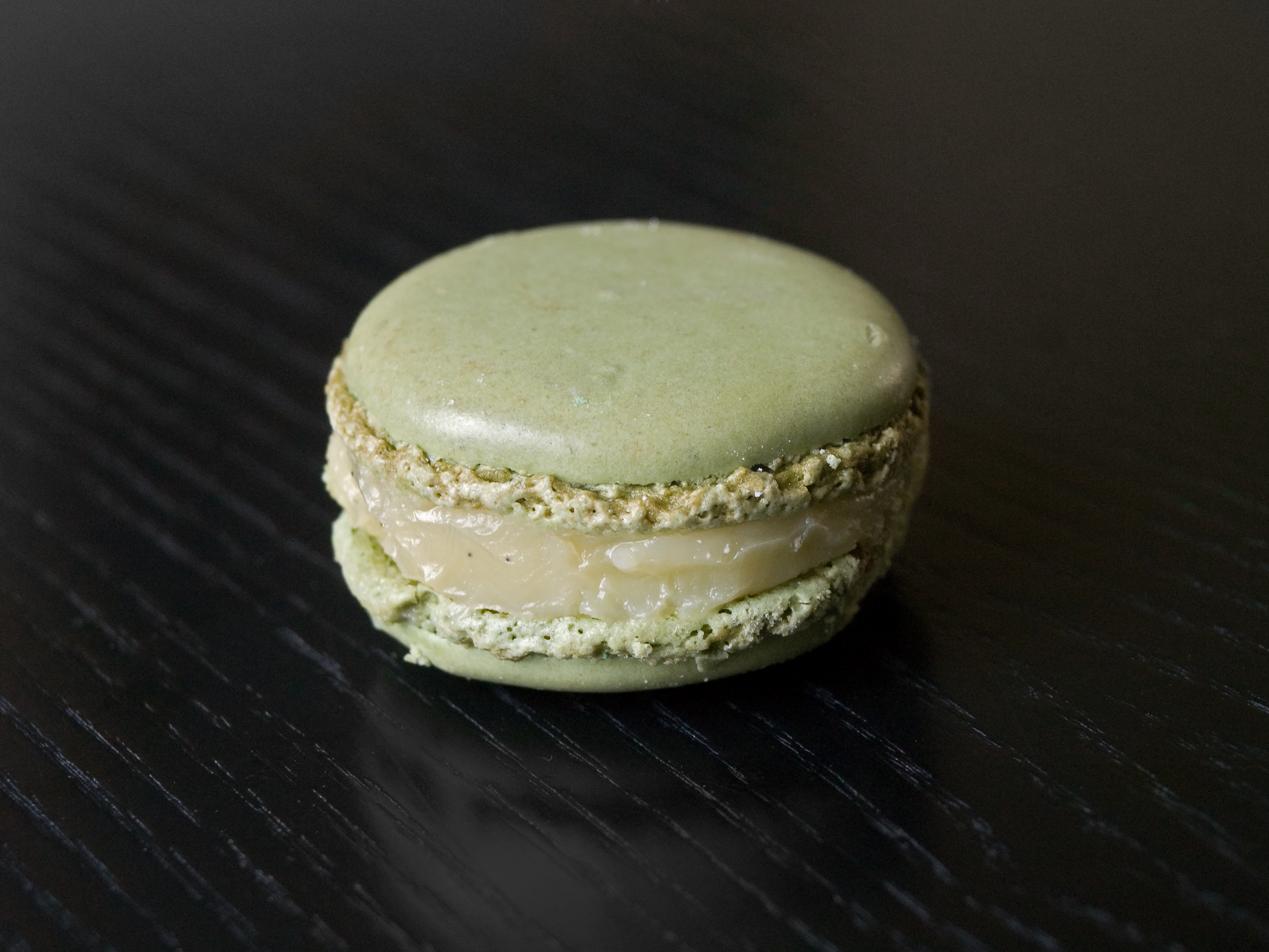 Macaron, a French pastry. This sandwich-like pastry made with two thin cookies and a cream between them exists in a wide variety of flavors. This actual piece is a Pierre Hermé's “Olive Oil and Vanilla” macaron.